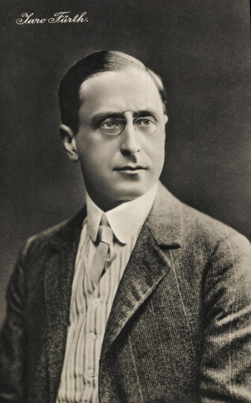 Circa 1912 portrait of Austrian actor Jaro Fürth (1871–1945) taken by unknown photographer and distributed as a post card.